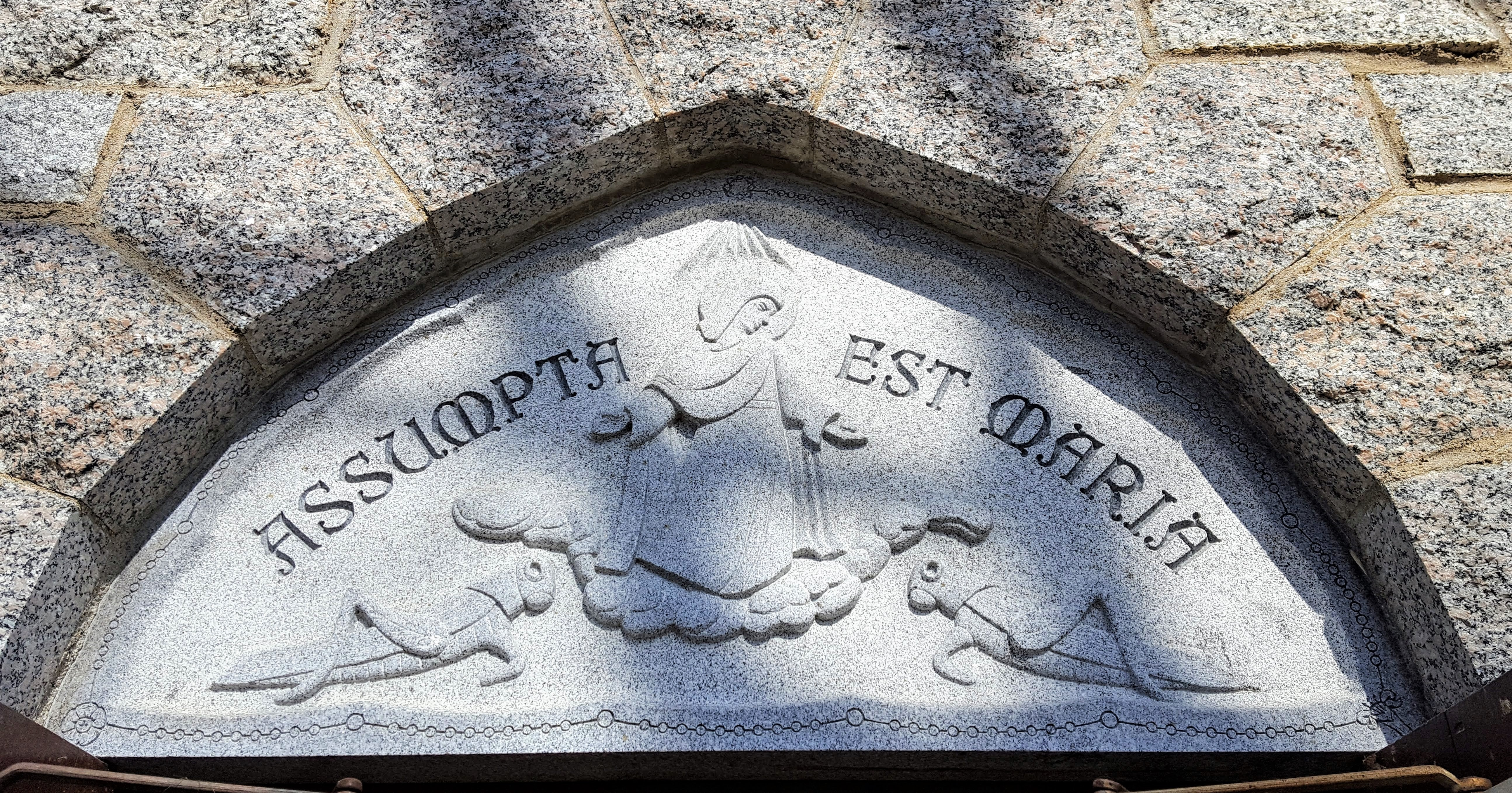 Granite stone above the door at the Grasshopper Chapel in Cold Spring, Minnesota. The inscription reads "Assumpta est Maria" ("Mary has been taken up"), and two grasshoppers bow at her feet.